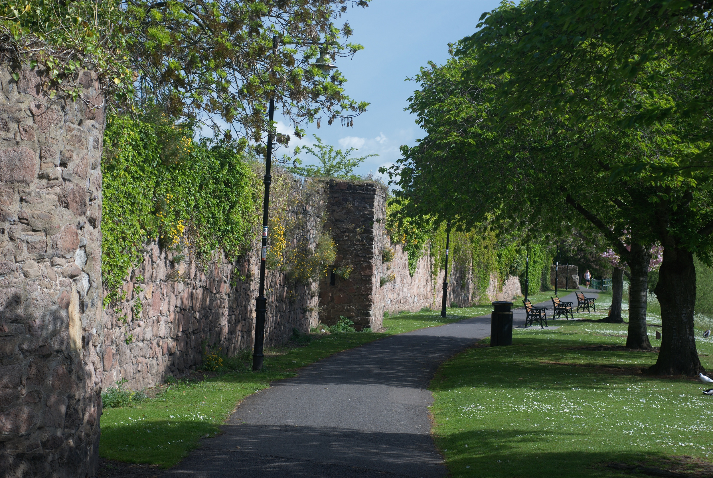 Eastern wall of the precinct of Leicester Abbey, Abbey Park, Leicester